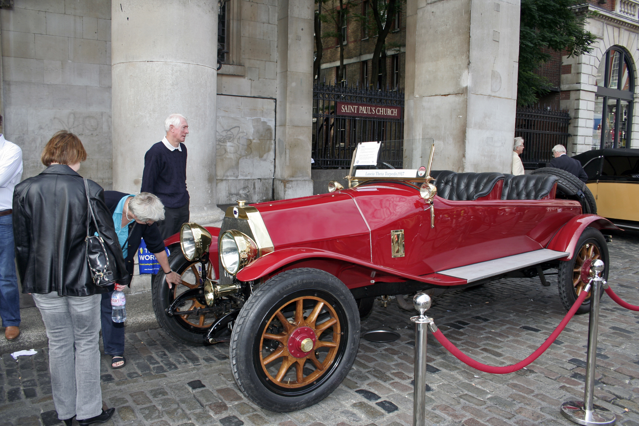 Lancia Theta Torpedo 1917 in Covent Garden London 2007